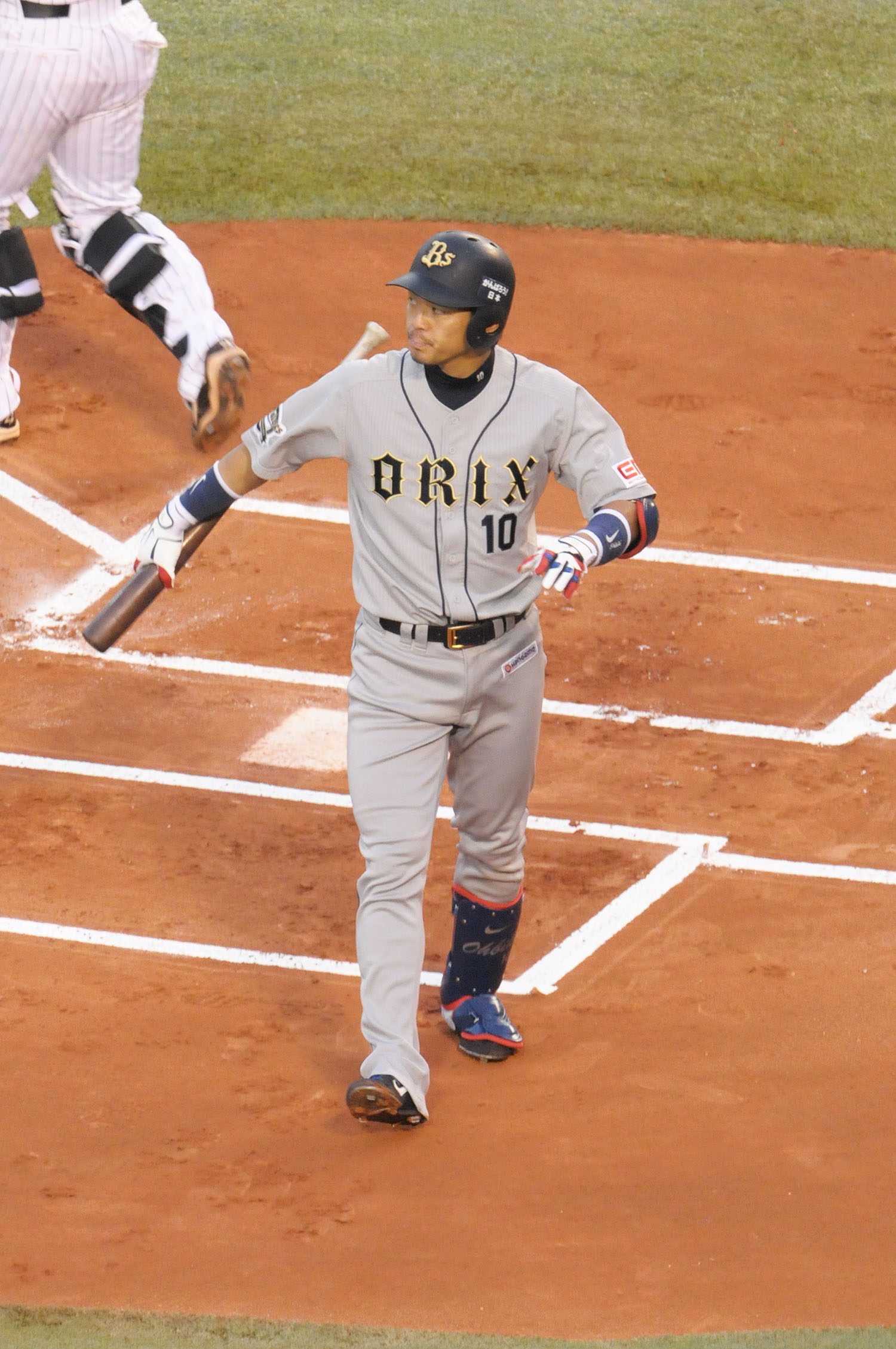 Keiji Obiki, infielder of the Orix Buffaloes, at Chiba Marine Stadium.